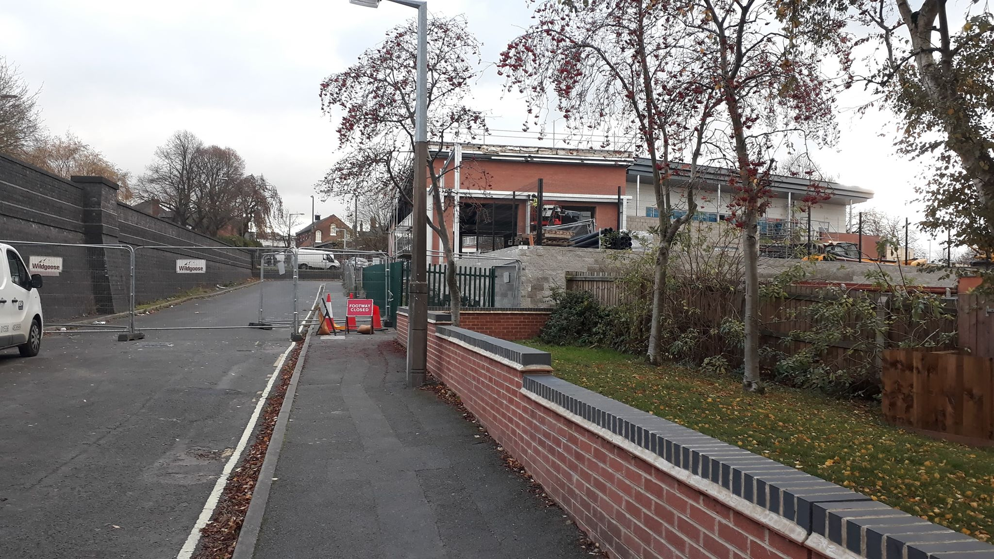 The former station site, now occupied by Swadlincote Fire Station. The former tunnel can be seen on the left which took the railway under Midland Road.